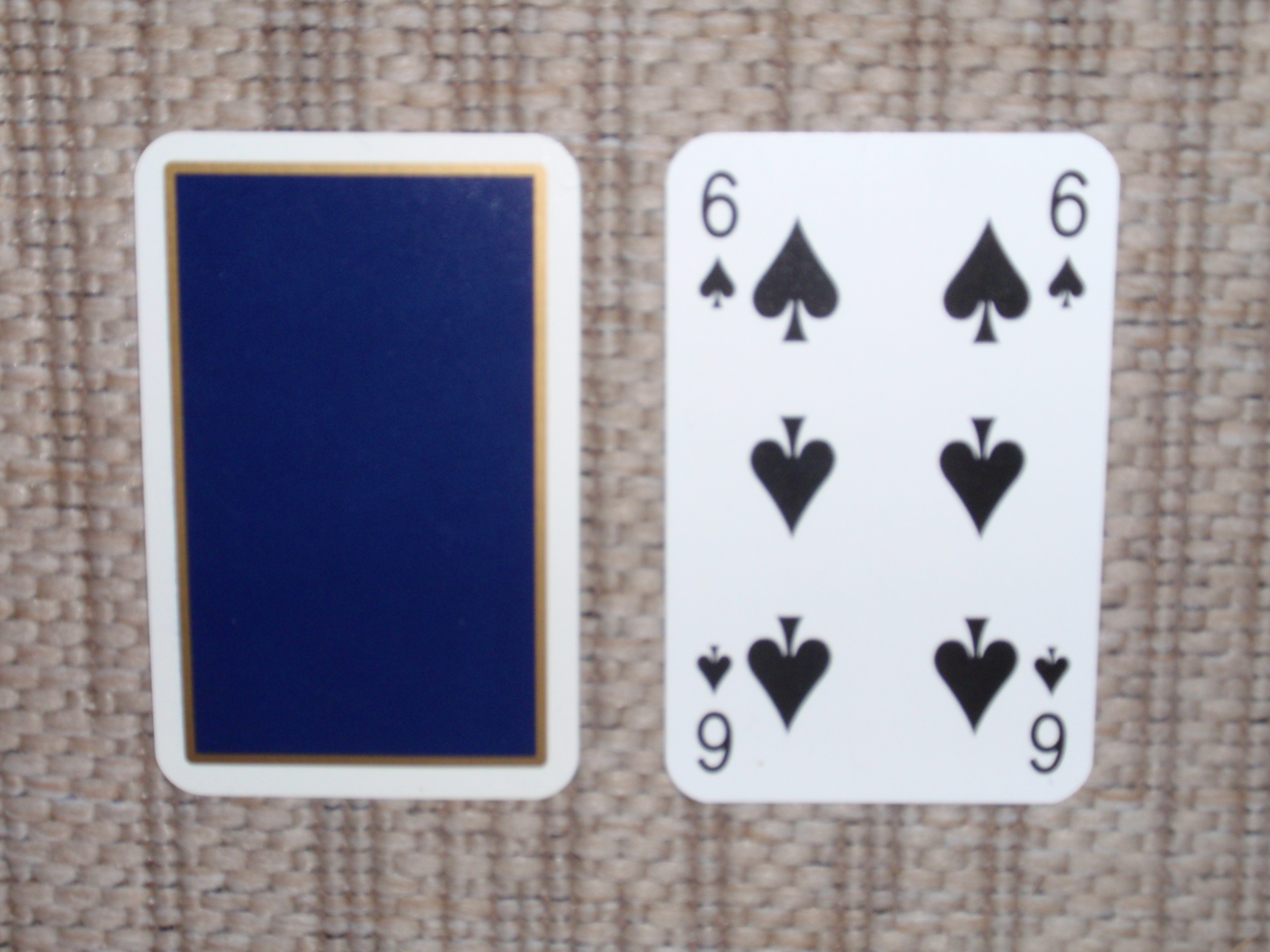 5 Card Stud Starting Hand